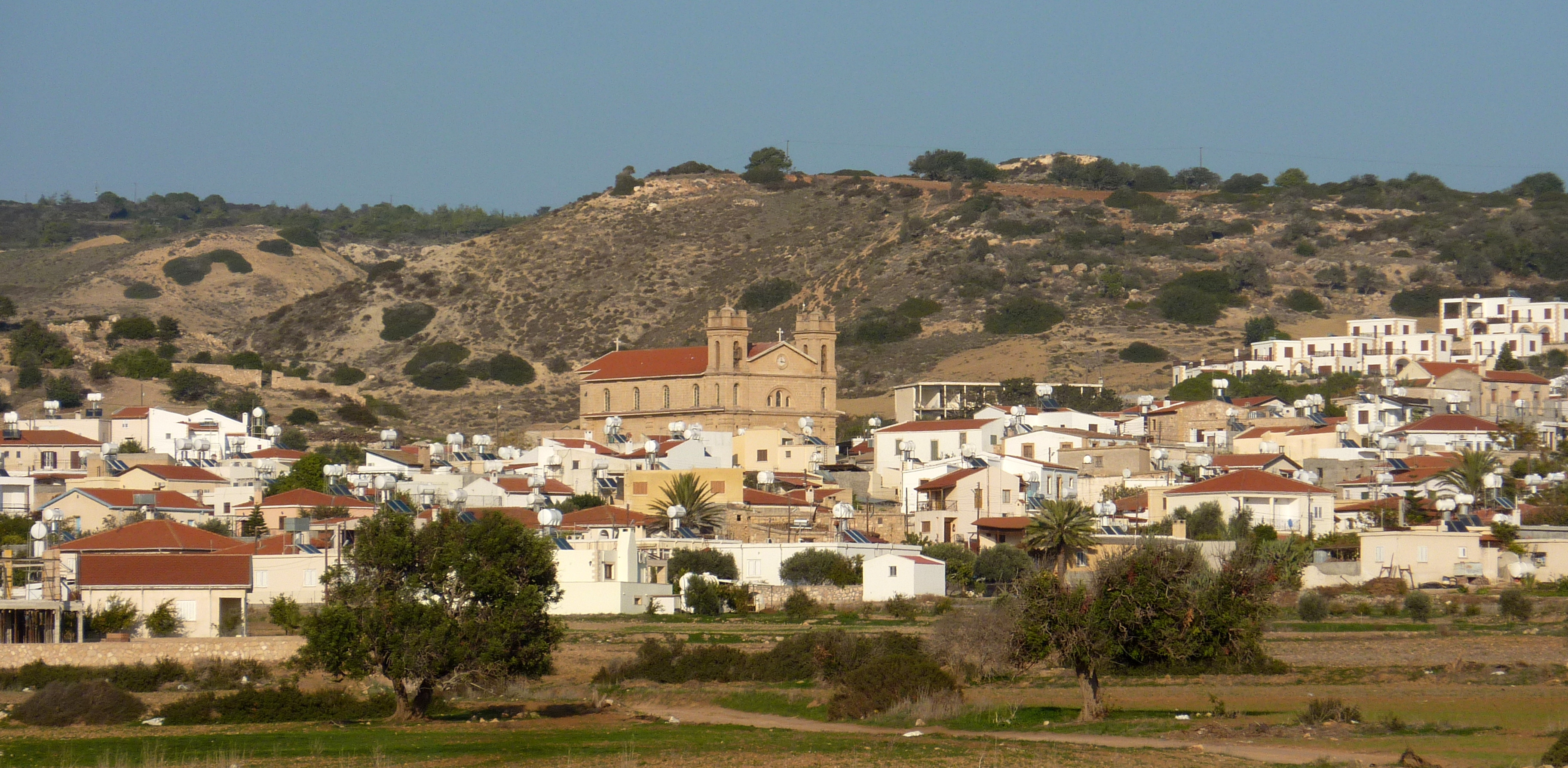 A general view of the village of Kormakitis, Cyprus